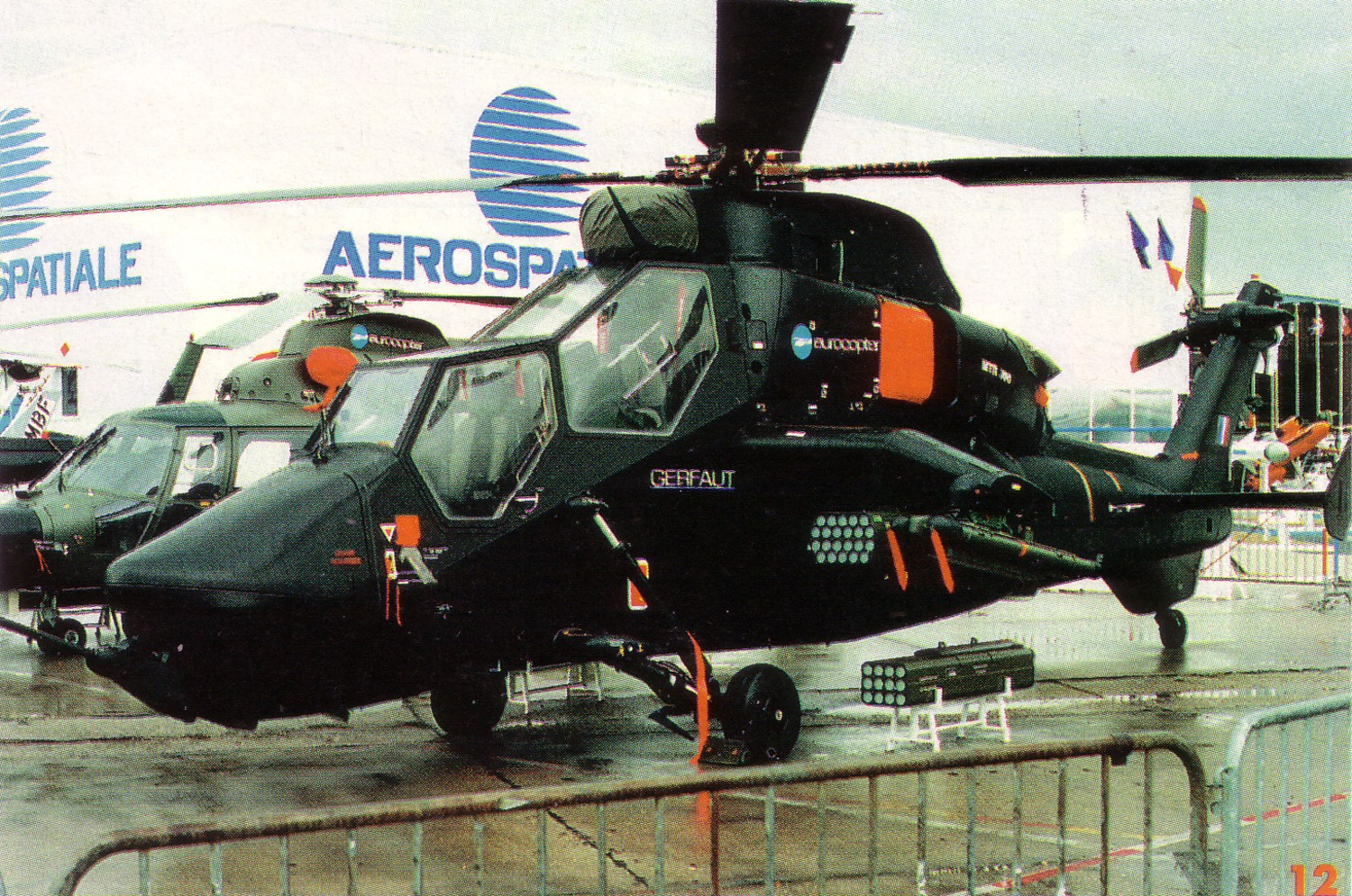 Eurocopter Gerfaut